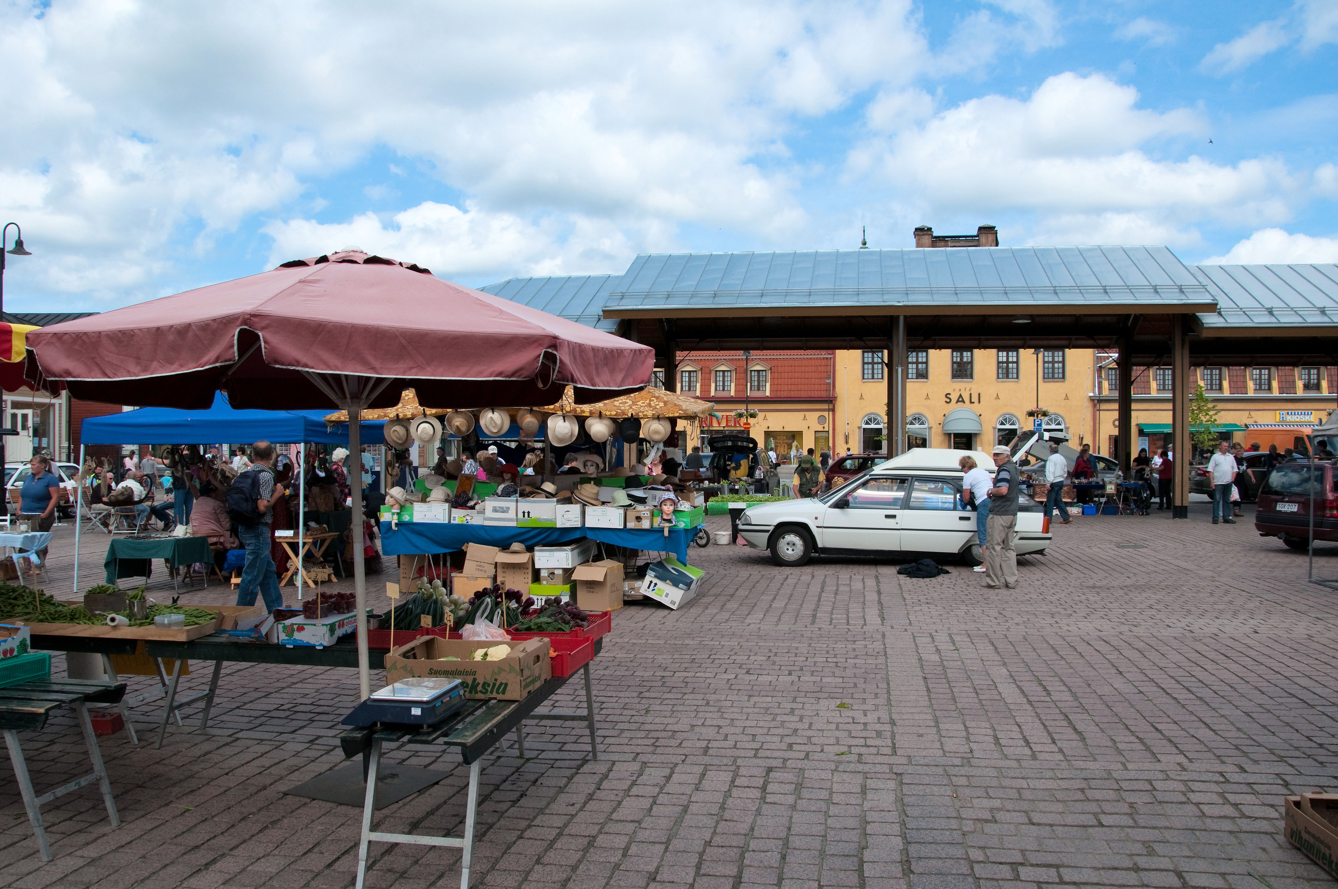 Street in old Rauma